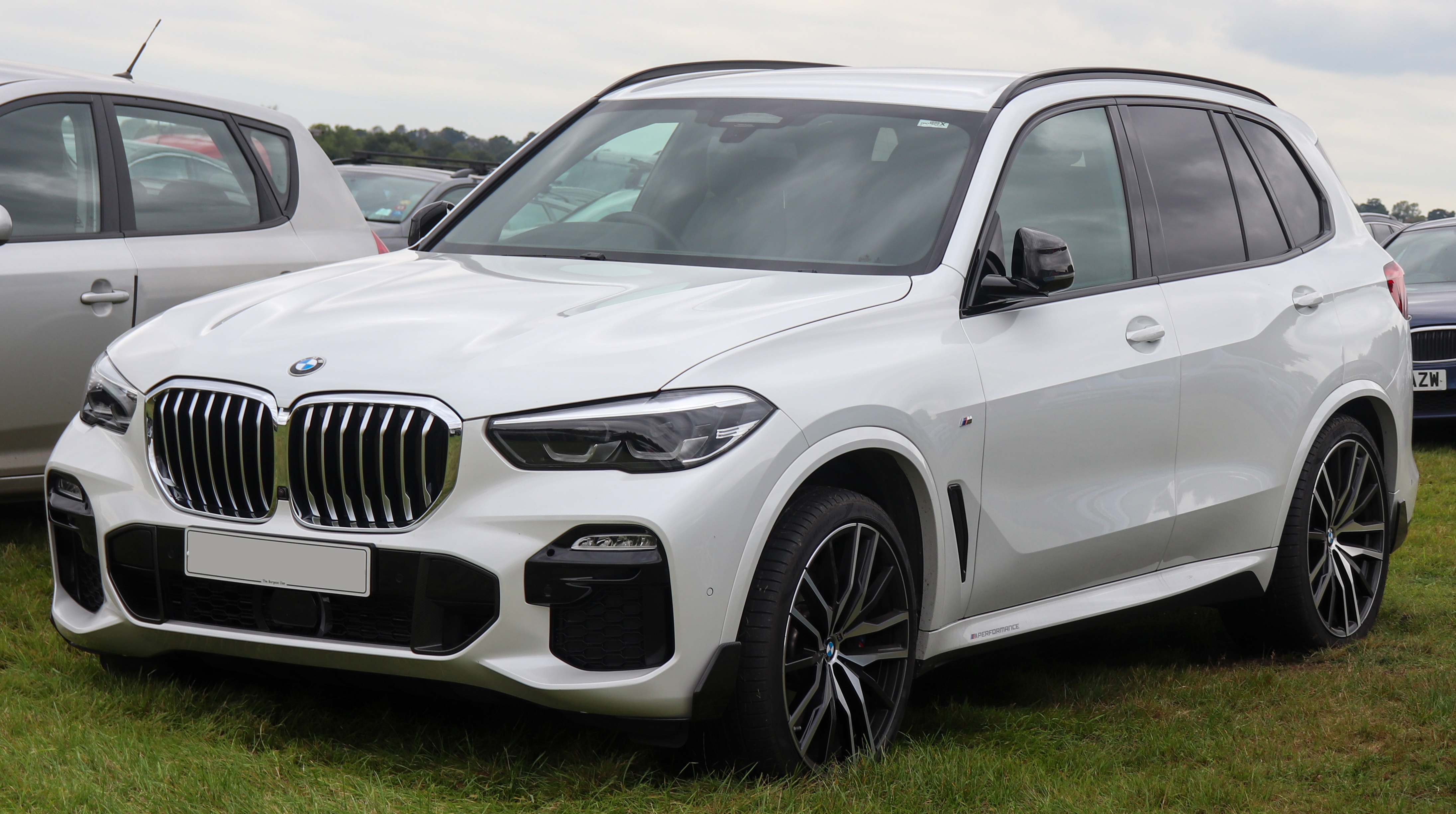 2019 BMW X5 xDrive30d M Sport Automatic 3.0 Front Taken in Warwick